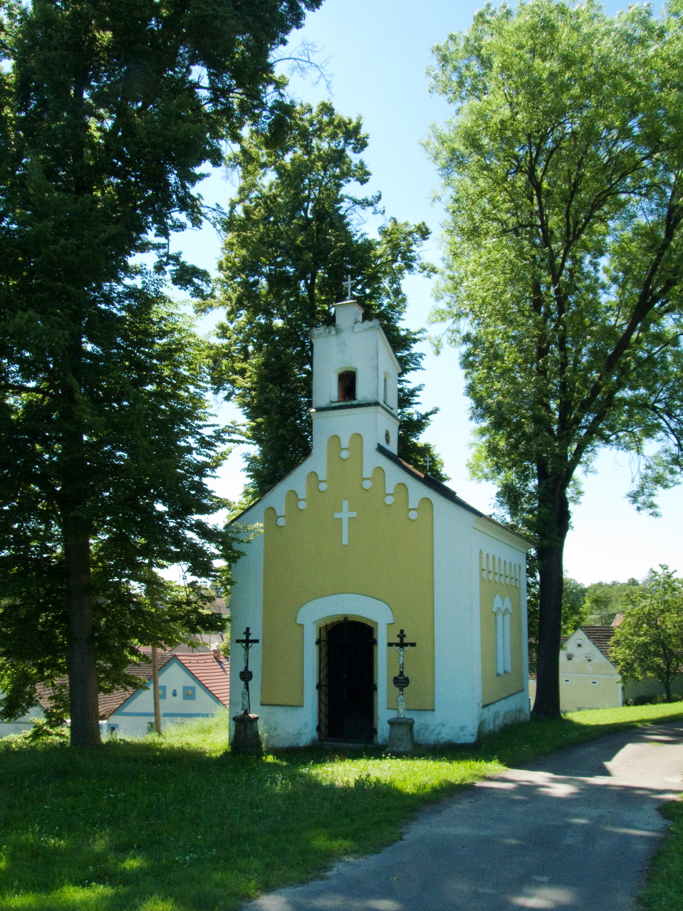 St. John of Nepomuk Chapel in the village of Třebějice, Tábor district, Czech Republic